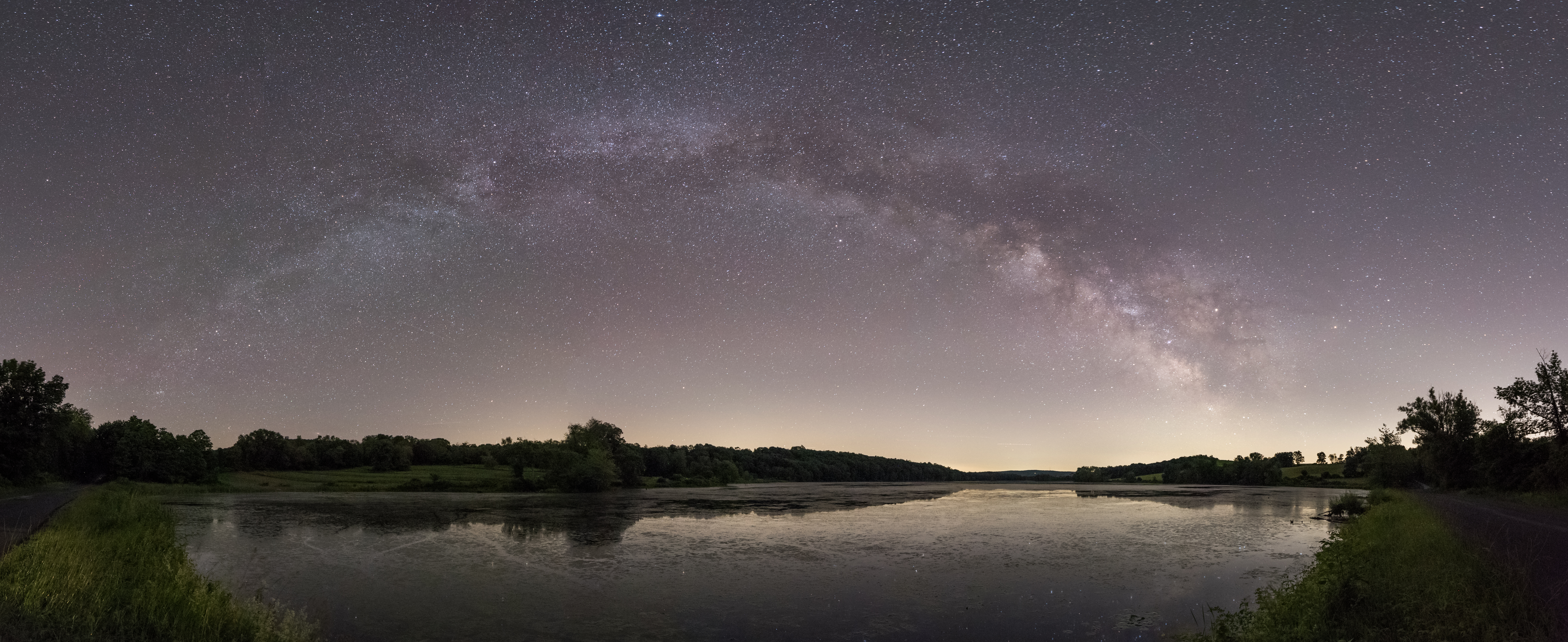 Panorama of the Milky Way galactic plane stretching over Bontecou Lake in Dutchess County, New York.